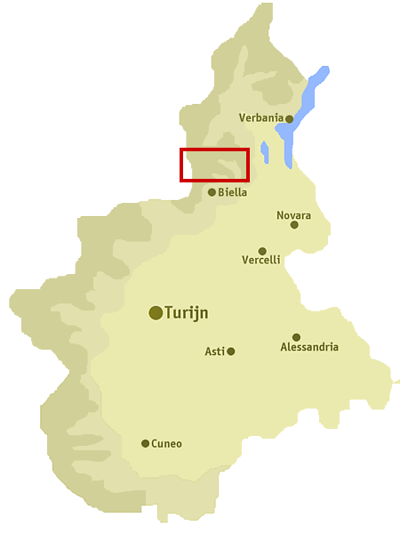 Position of the valley Valsesia